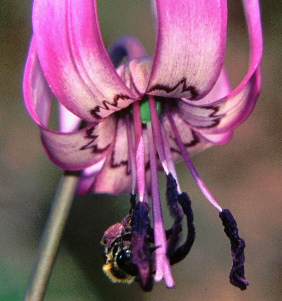 Erythronium_japonicum_and_bee